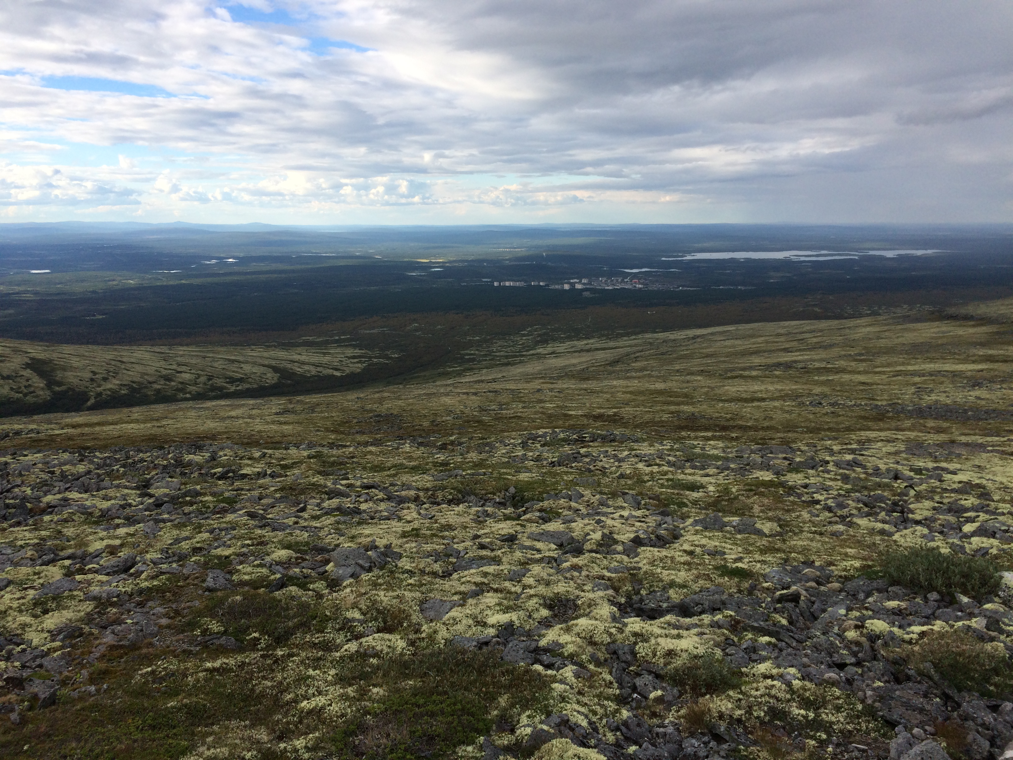 Lovozero Massif